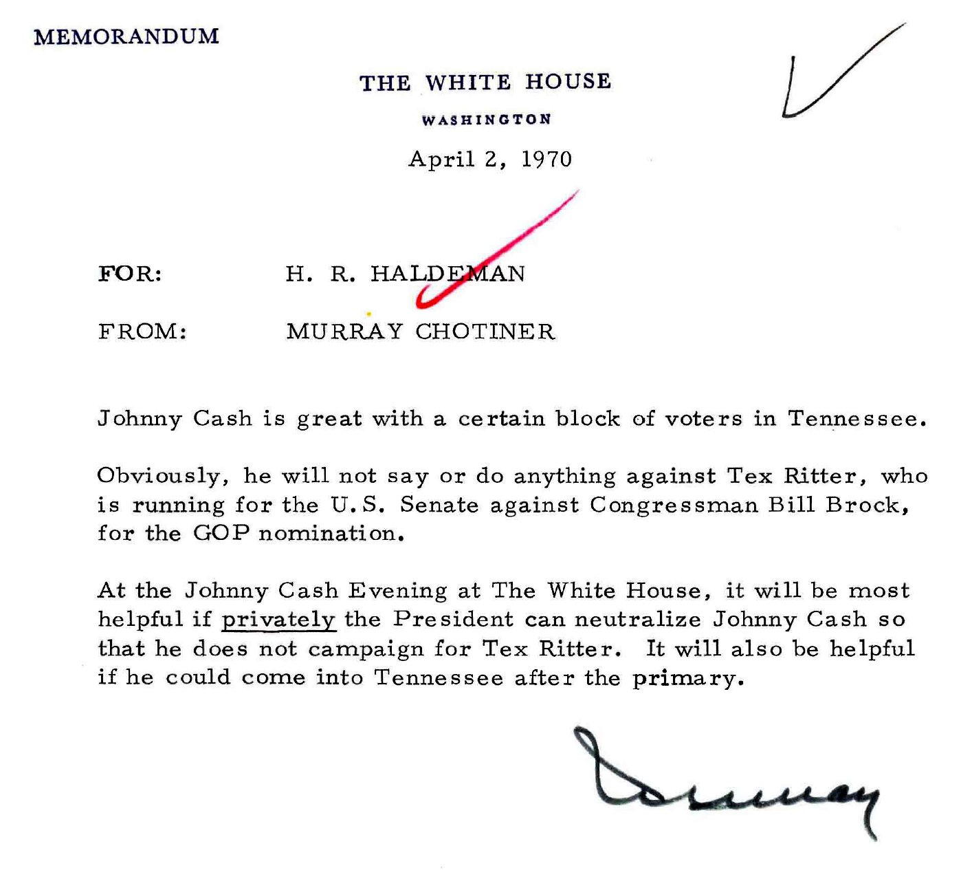 Memo from Murray M Chotiner to H.R. Haldeman